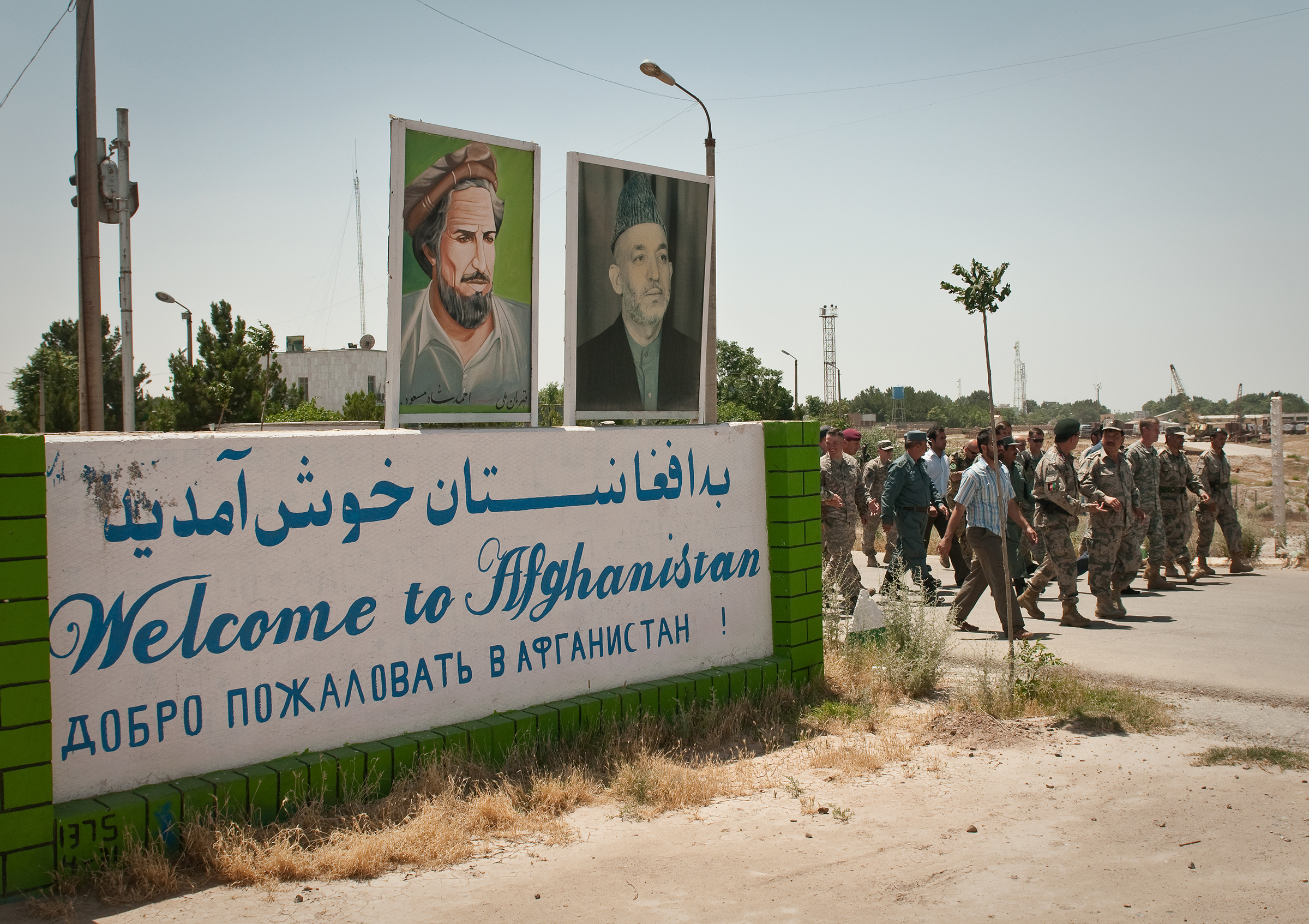 BALKH PROVINCE, Afghanistan (May 27, 2010) — General Stanley McChrystal, commander of NATO’s International Security Assistance Force, the Mayor of Hairaton, provincial officials and members of the Afghan Border Police pass the “Welcome to Afghanistan” sign on their way to the Freedom Bridge crossing the Amu Darya River. On 15th February, 1989 the last Soviet troops to withdraw from Afghanistan crossed the bridge into the, then, Uzbek Soviet Socialist Replublic. (U.S. Navy photo by /Released)